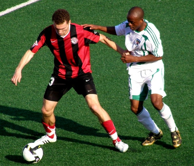 Jean Bouli (98) playing against Ivan Cherenchikov (3)